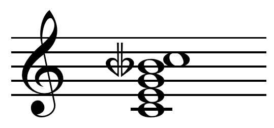 Harmonic seventh chord on C. Created by Hyacinth (talk) 03:45, 14 August 2011 in Sibelius 5. See: File:Harmonic seventh chord on C.mid See: File:Harmonic seventh chord just on C.mid